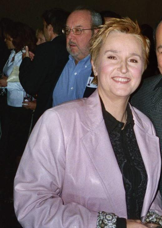 Melissa Etheridge at 2007 Academy Awards Luncheon.